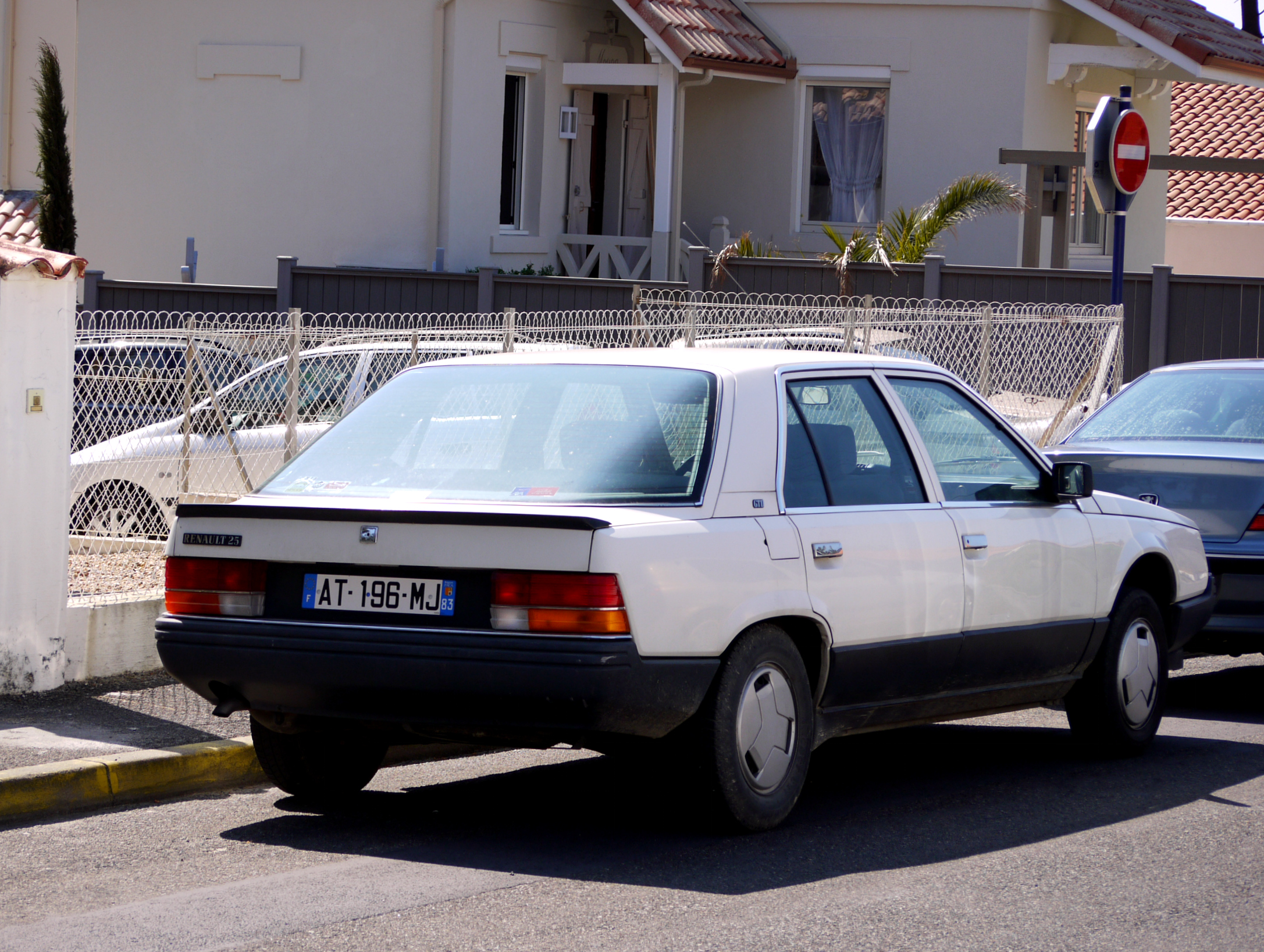 Renault 25 GTL - Phase I. Rarer by the day, especially with petrol engines.